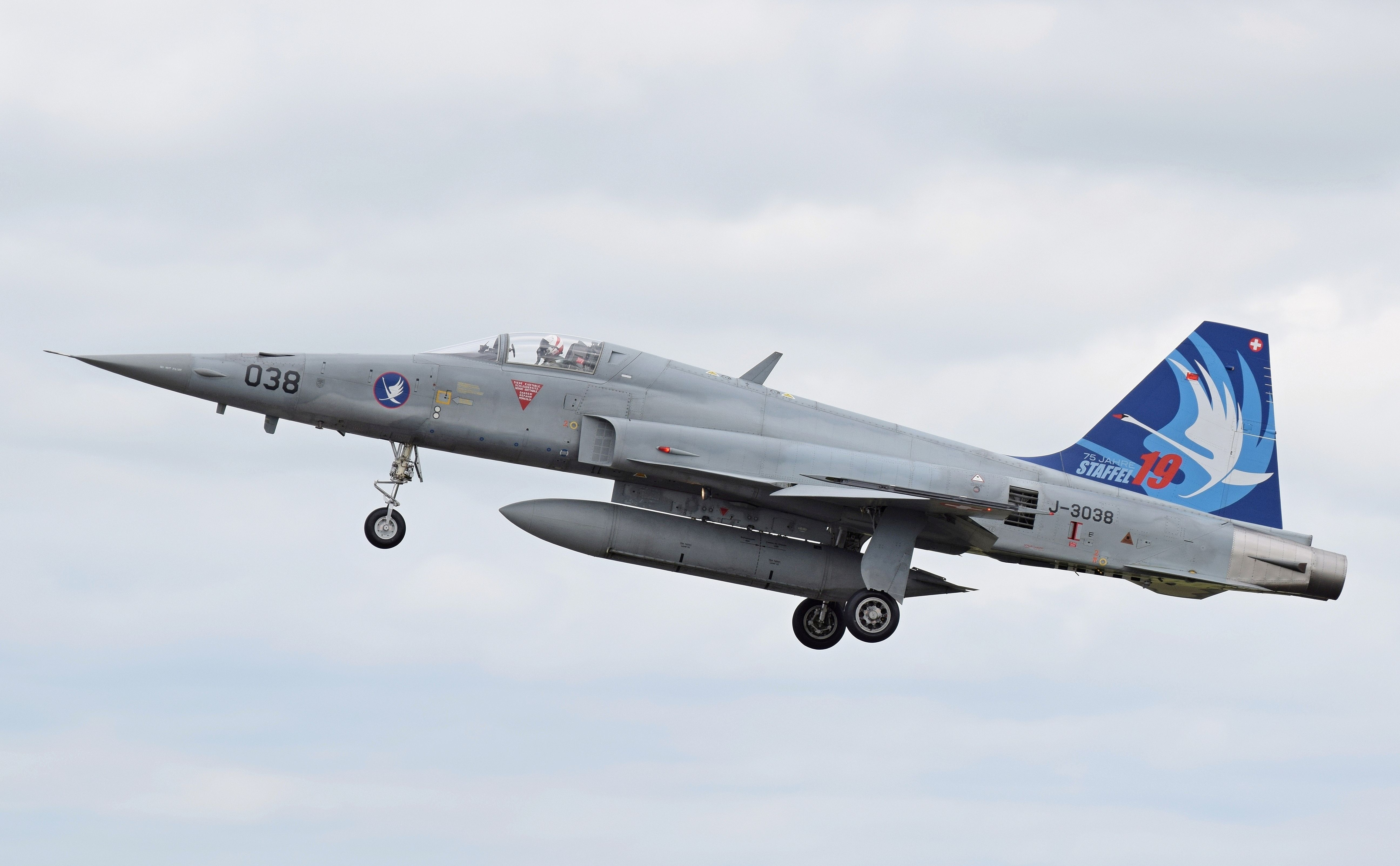 Northrop F-5E Tiger II of the Swiss Air Force (code J-3038) arrives at the 2016 Royal International Air Tattoo, RAF Fairford, England. The paint scheme commemorates the 75th anniversary of Staffel 19 (Staffel means squadron).